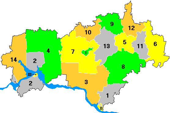 Administrative divisions of Mari El